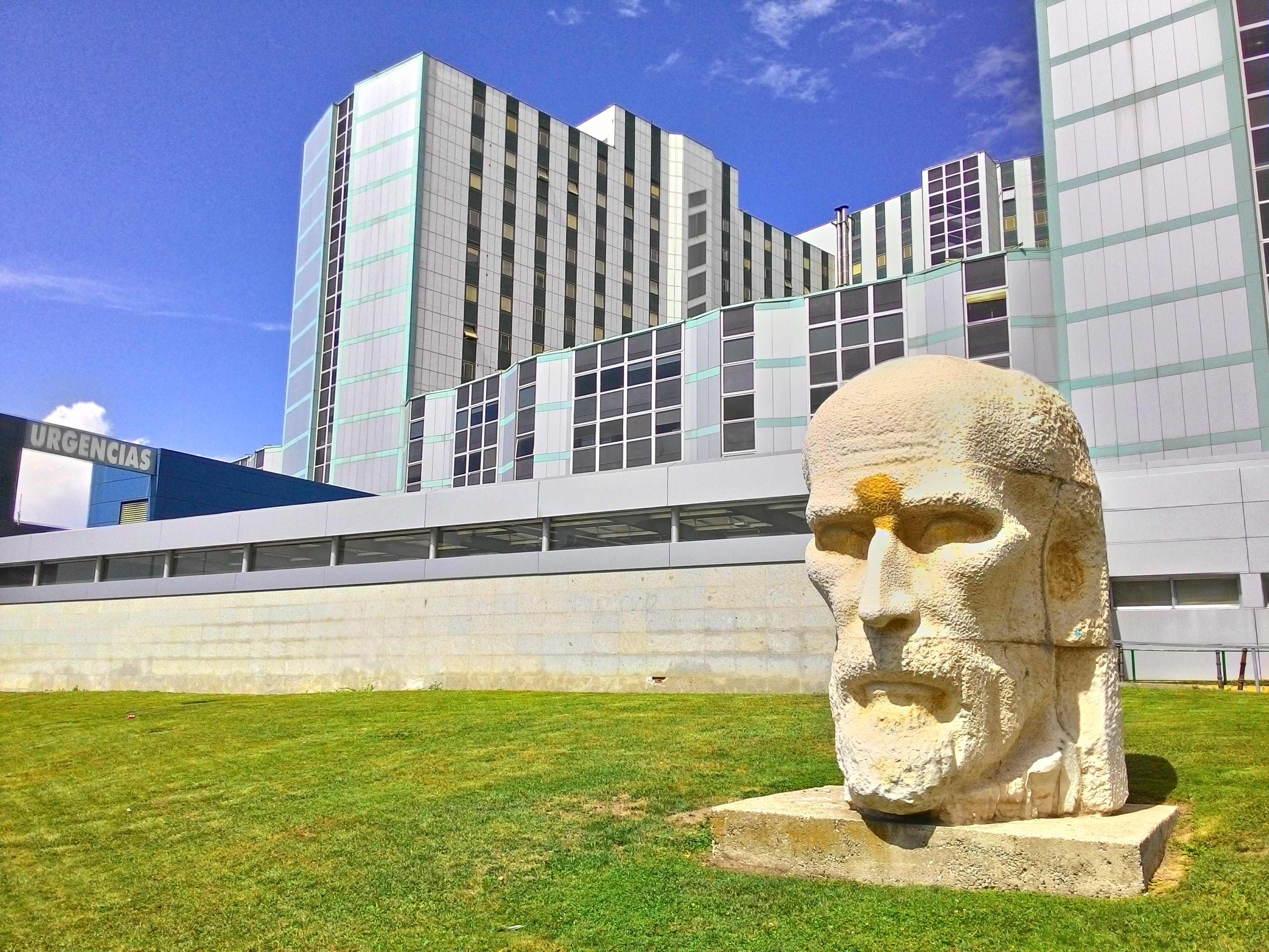 Picture of Hospital Ramón y Cajal with Ramón y Cajal bust in the front.